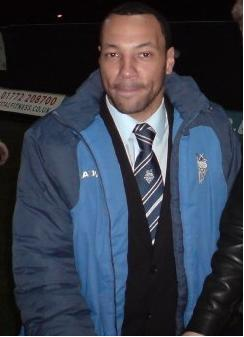 Hawley after a Charlton game where he did not play 2007/8 season